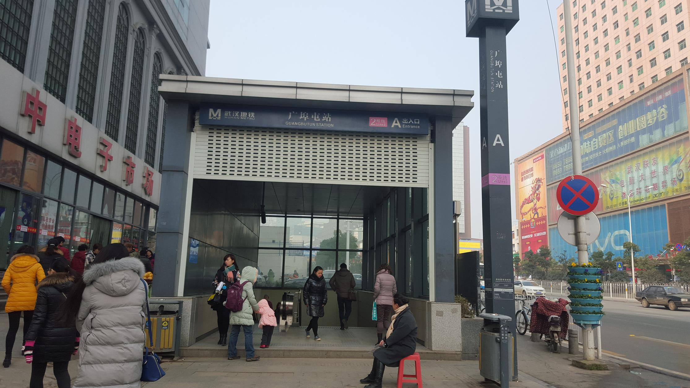 Entrance A of Guangbutun Station, Wuhan Metro